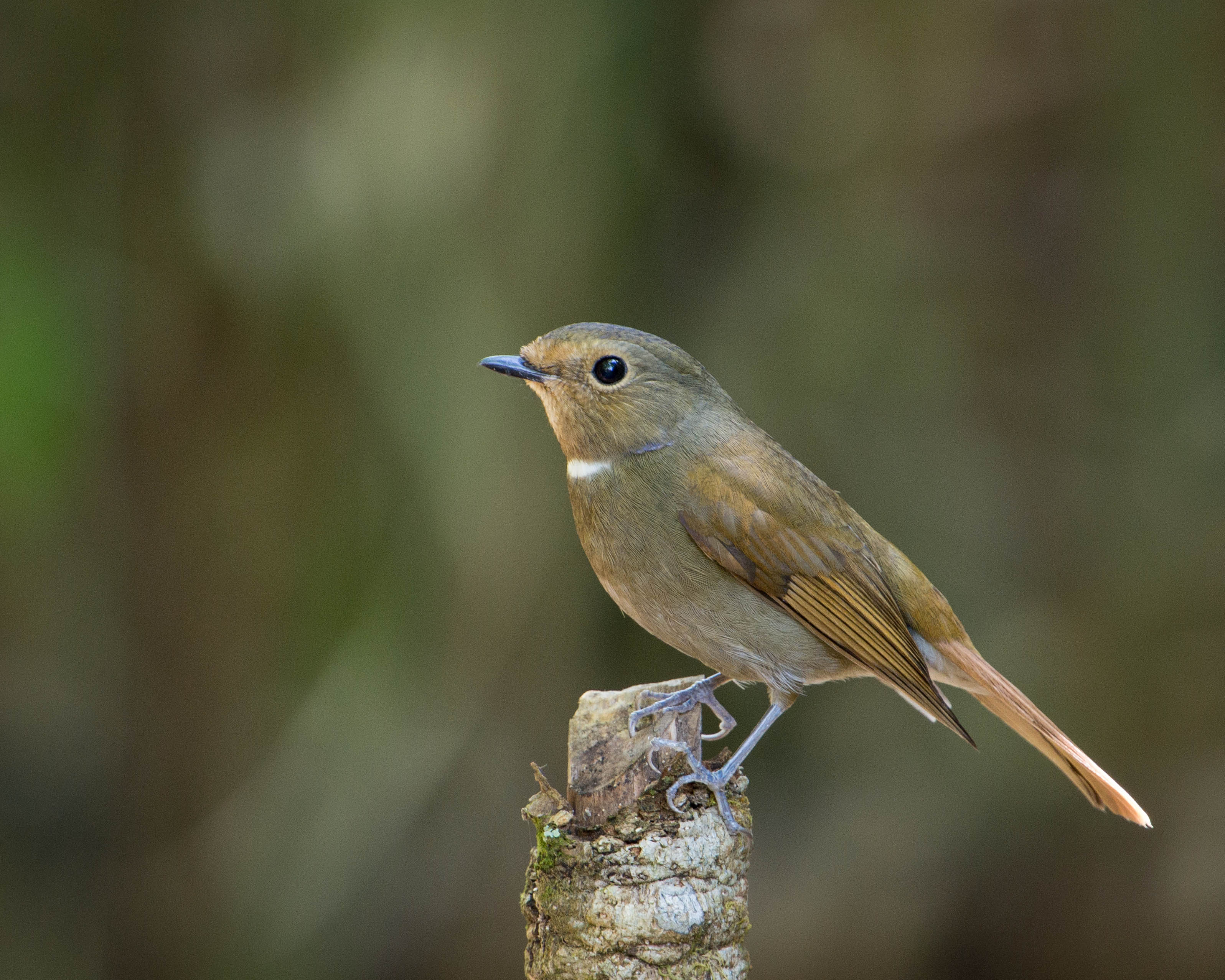 Female of Rufous-bellied Niltava (Niltava sundara) Doi Lang, Chiang Mai Thailand